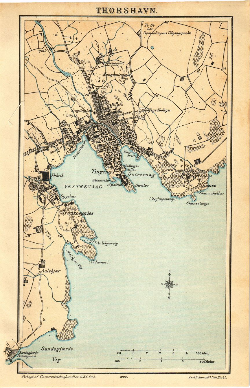 Old map of Tórshavn, Faroe Islands - around 1900